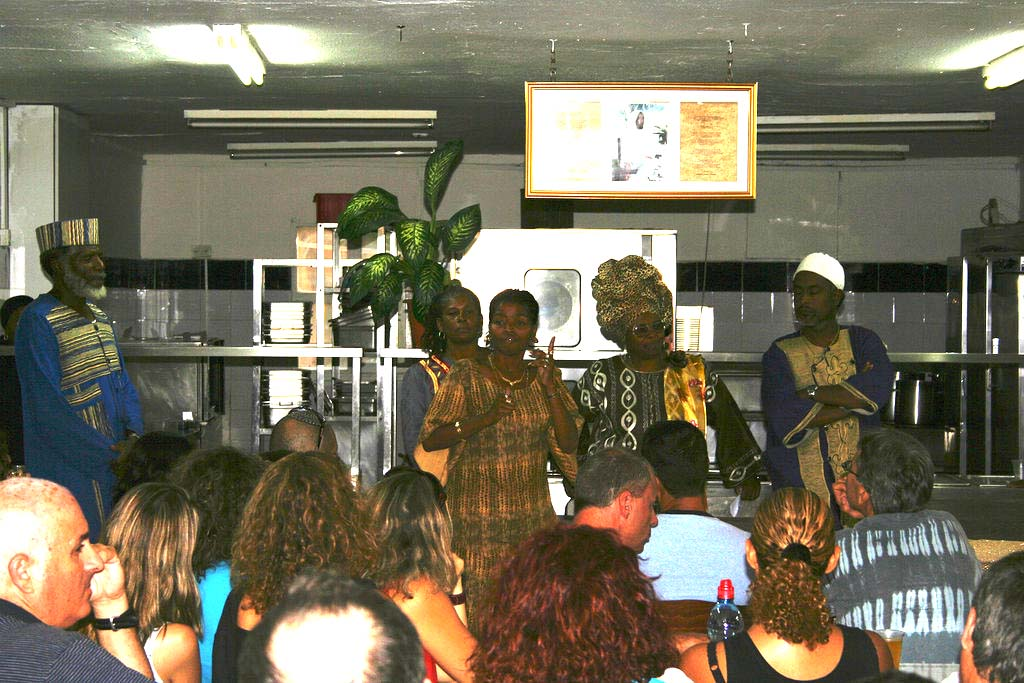 A visit in the Black Hebrews community of Dimona. The photo is taken in the community vegetarian dining hall.